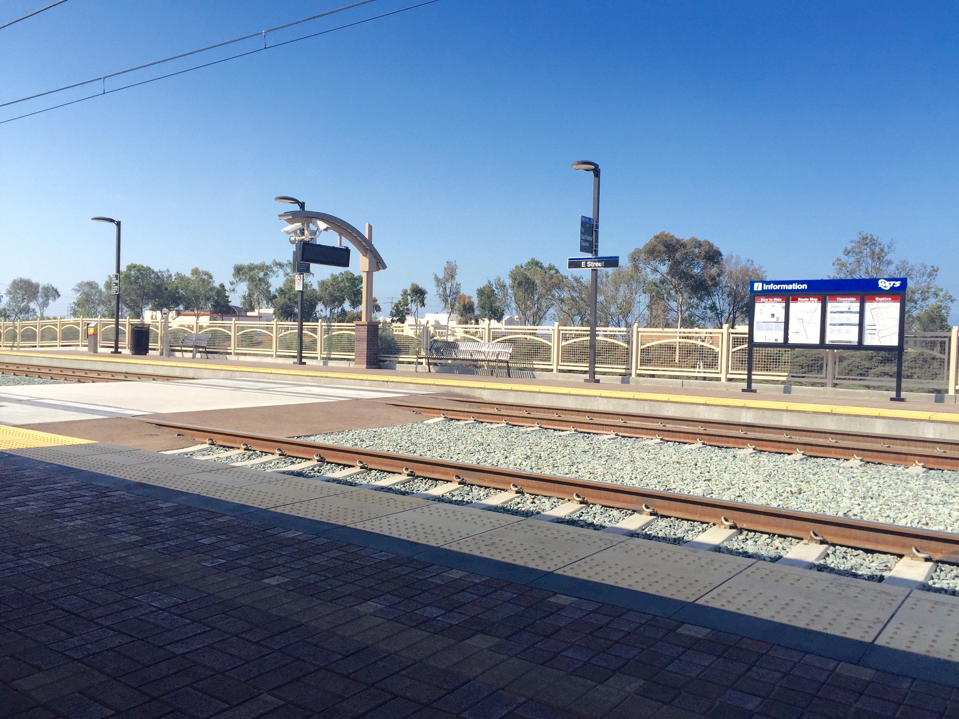 E Street Station of San Diego Trolley.